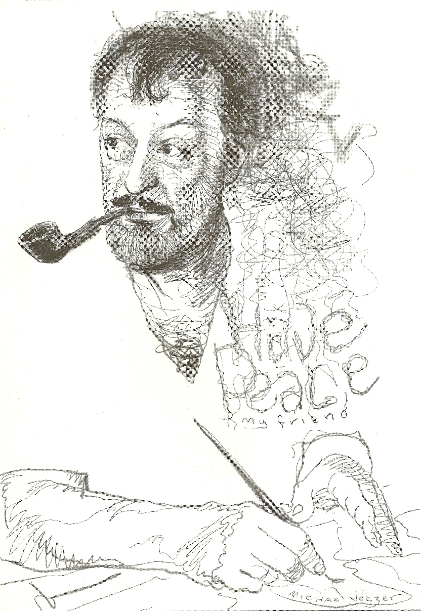 Portrait of artist and illustrator Gray Morrow, from Michael Netzer's Portraits of the Creators Sketchbook. (December 2001)